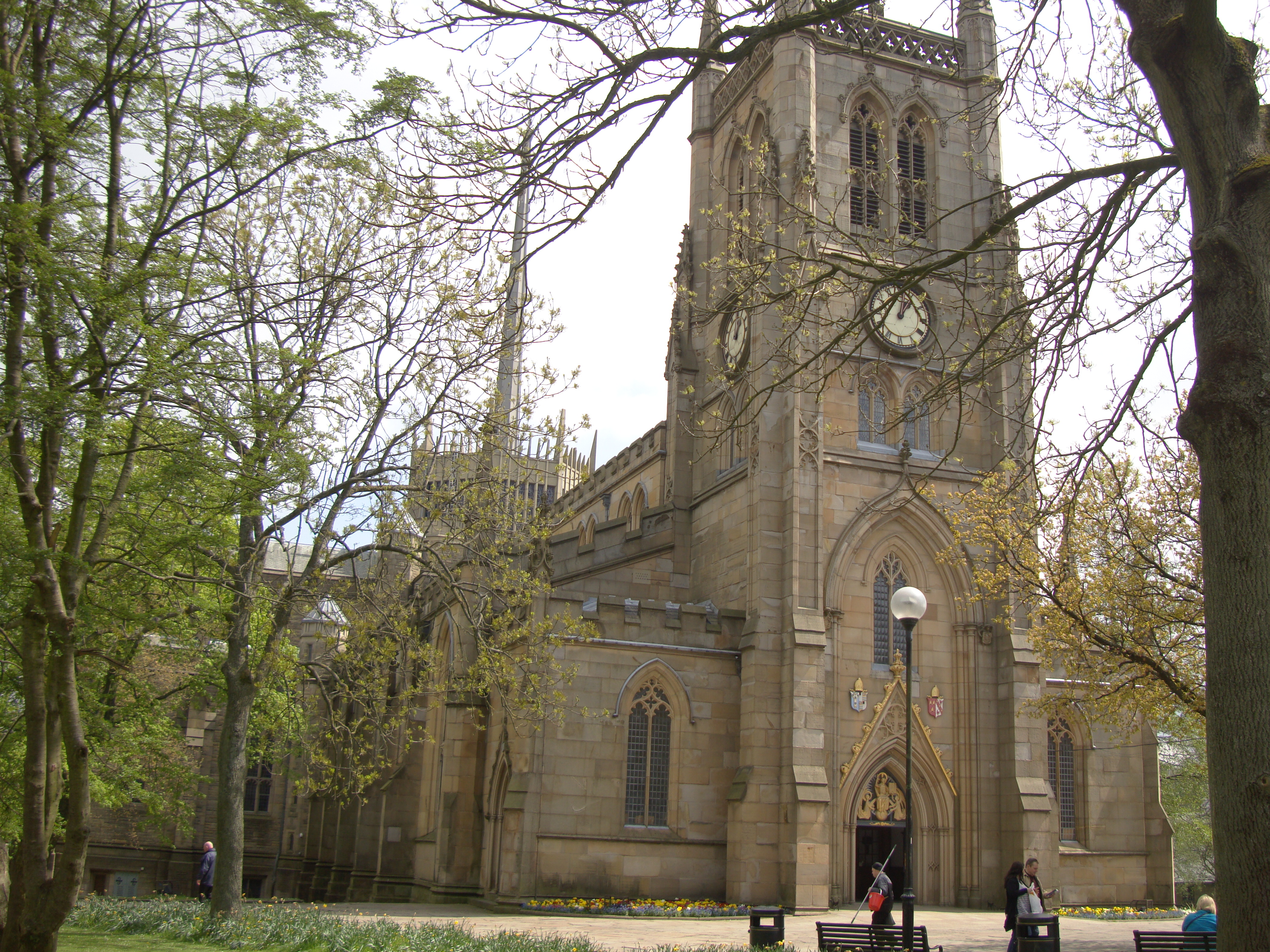 Photograph of Blackburn Cathedral, Lancashire, England